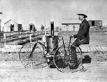 This steam powered automobile built by E.S. Callihan in Woonsocket, South Dakota, predates the Daimler and Benz automobiles by two years. Its burner is fueled by kerosene.